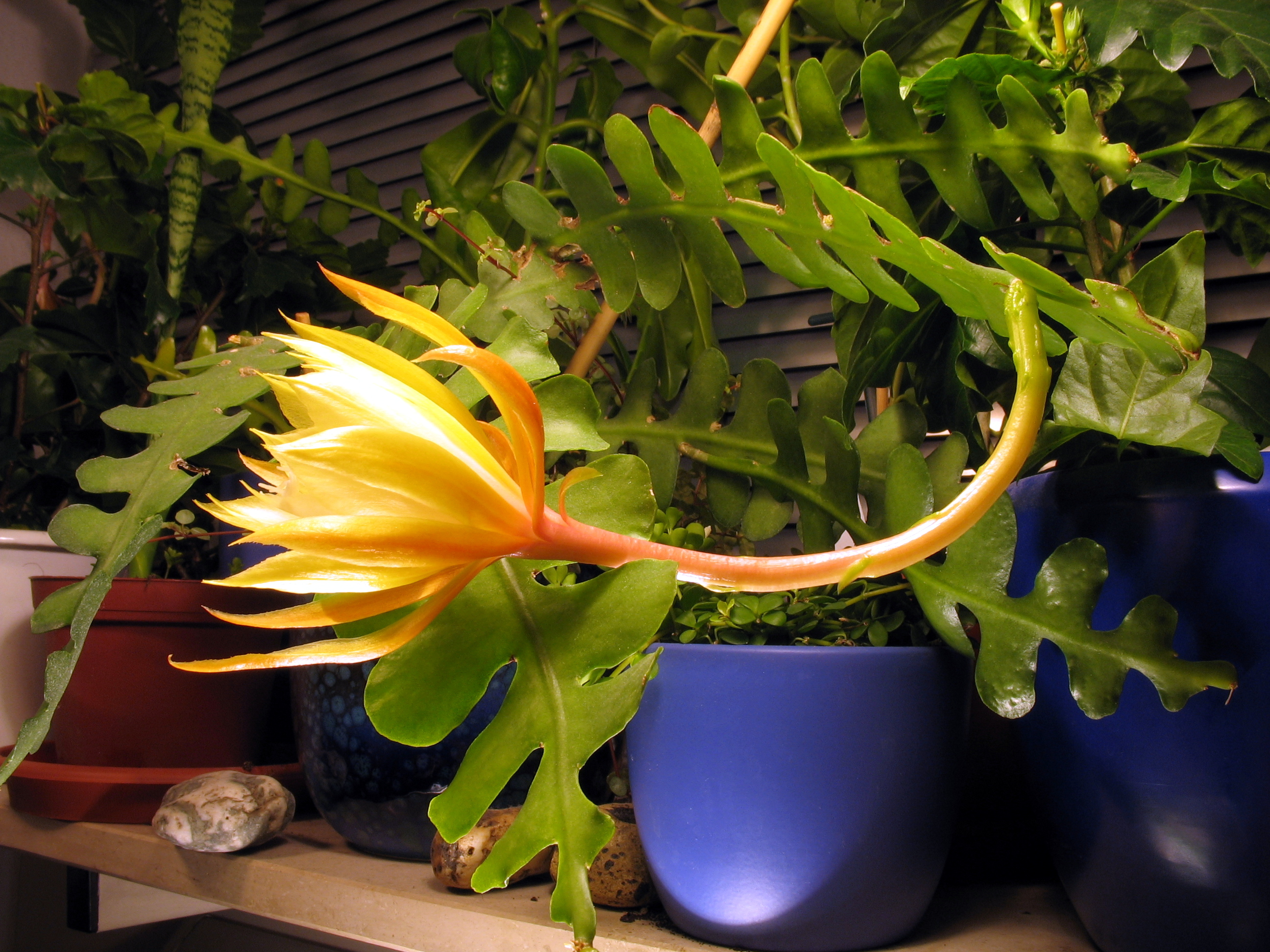 Epiphytic cactus Epiphyllum anguliger; habitus with one open flower (profile).